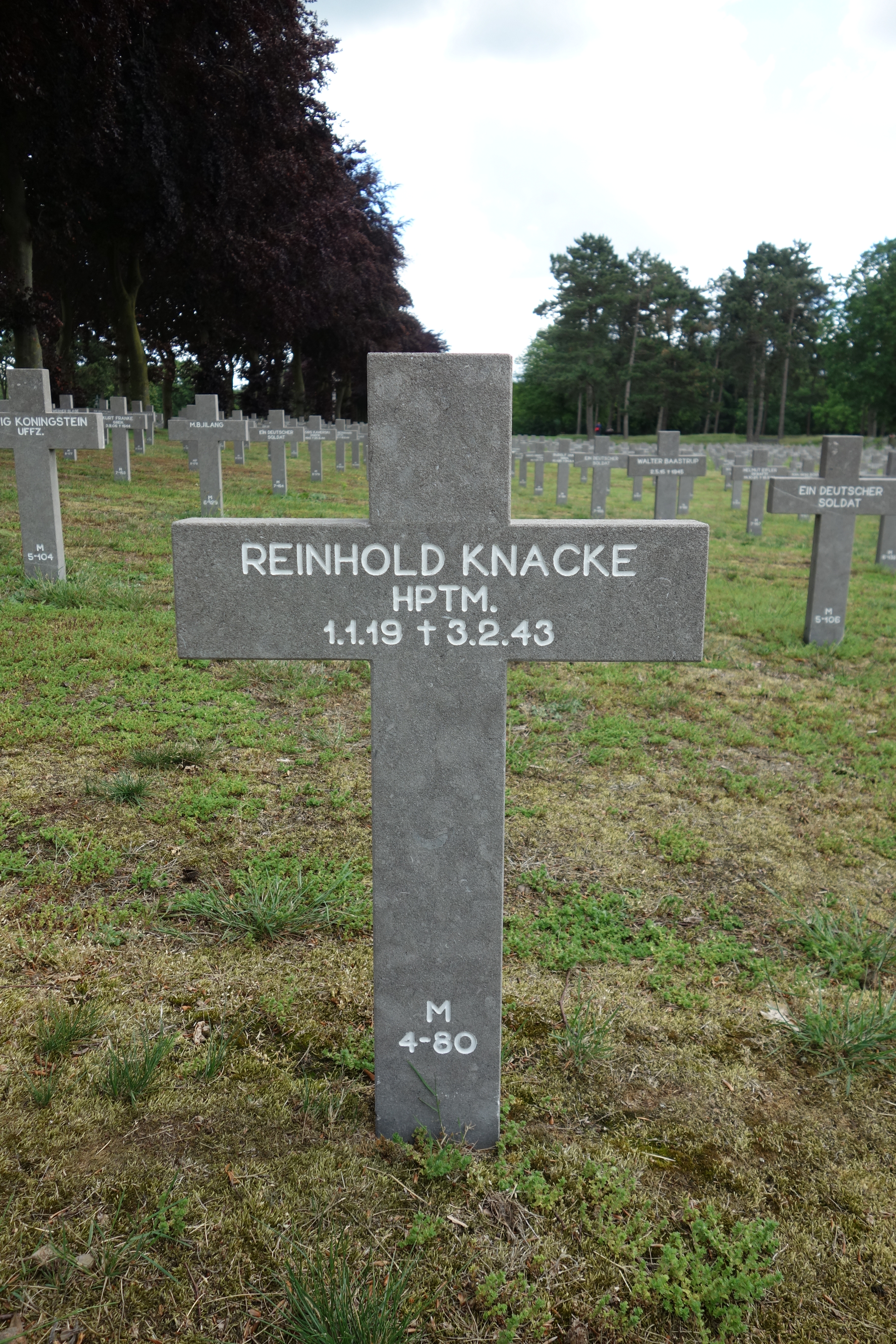 Grave of Reinhold Knacke M-4-80